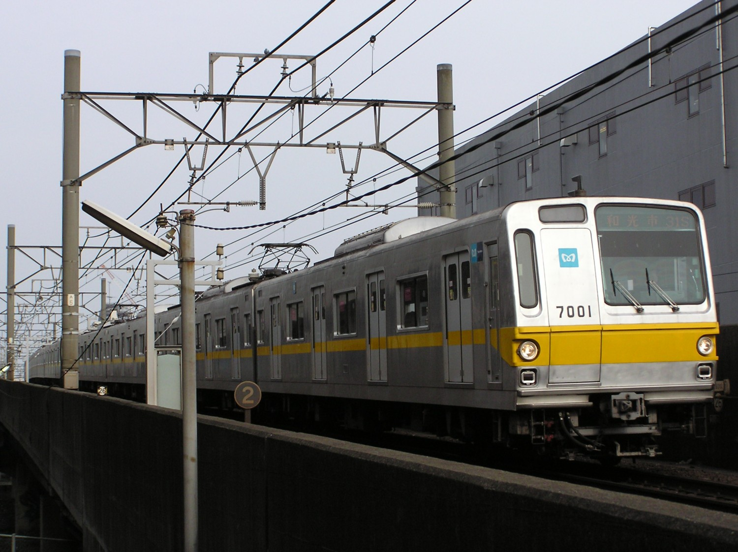 撮影地 Place of photo新木場～辰巳撮影の状況 How to take公道から撮影 At public roadトリミングの有無 Cropped or not非トリミング Not Cropped内容 Description東京地下鉄7000系7101F Tōkyō Metro 7000 series